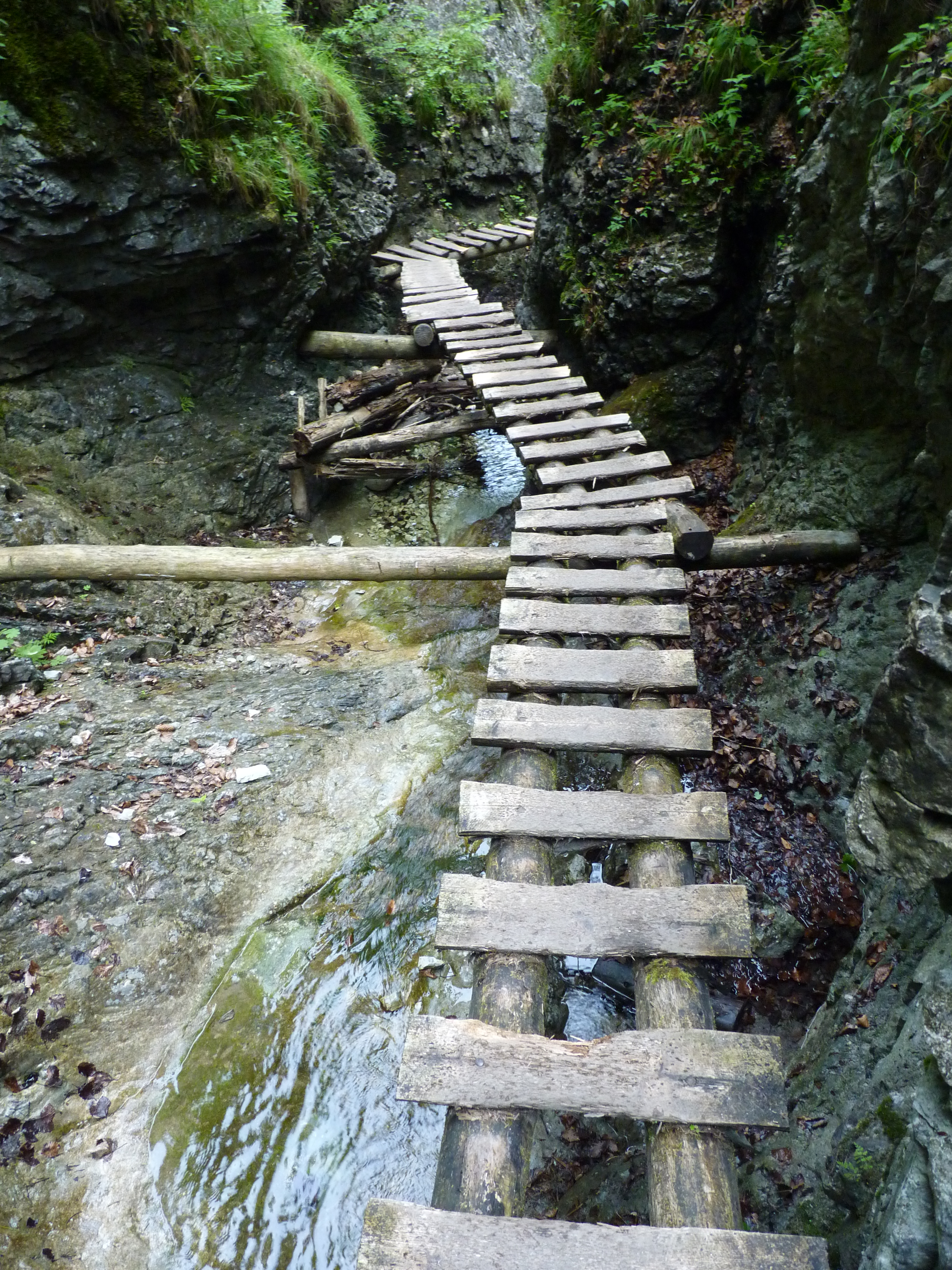 Misové waterfalls trail in Suchá Belá canyon, Slovak Paradise National Park, Slovakia.